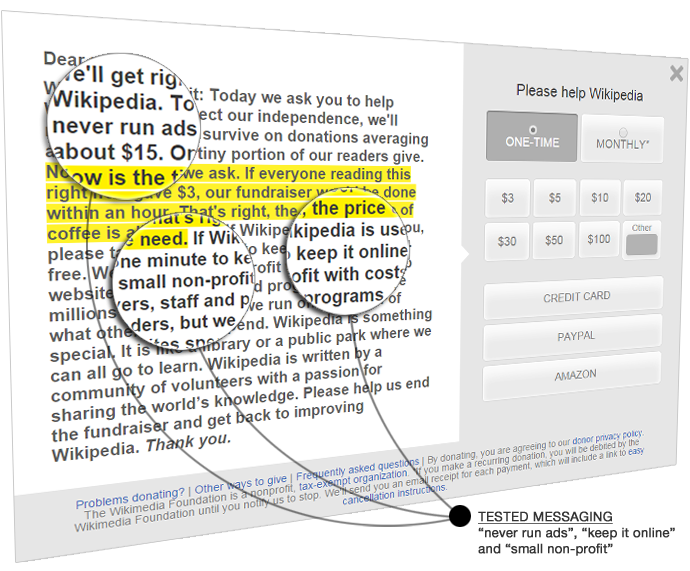 Example of Tested Messaging from User Feedback Surveys, for 2014 - 2015 Fundraising Report